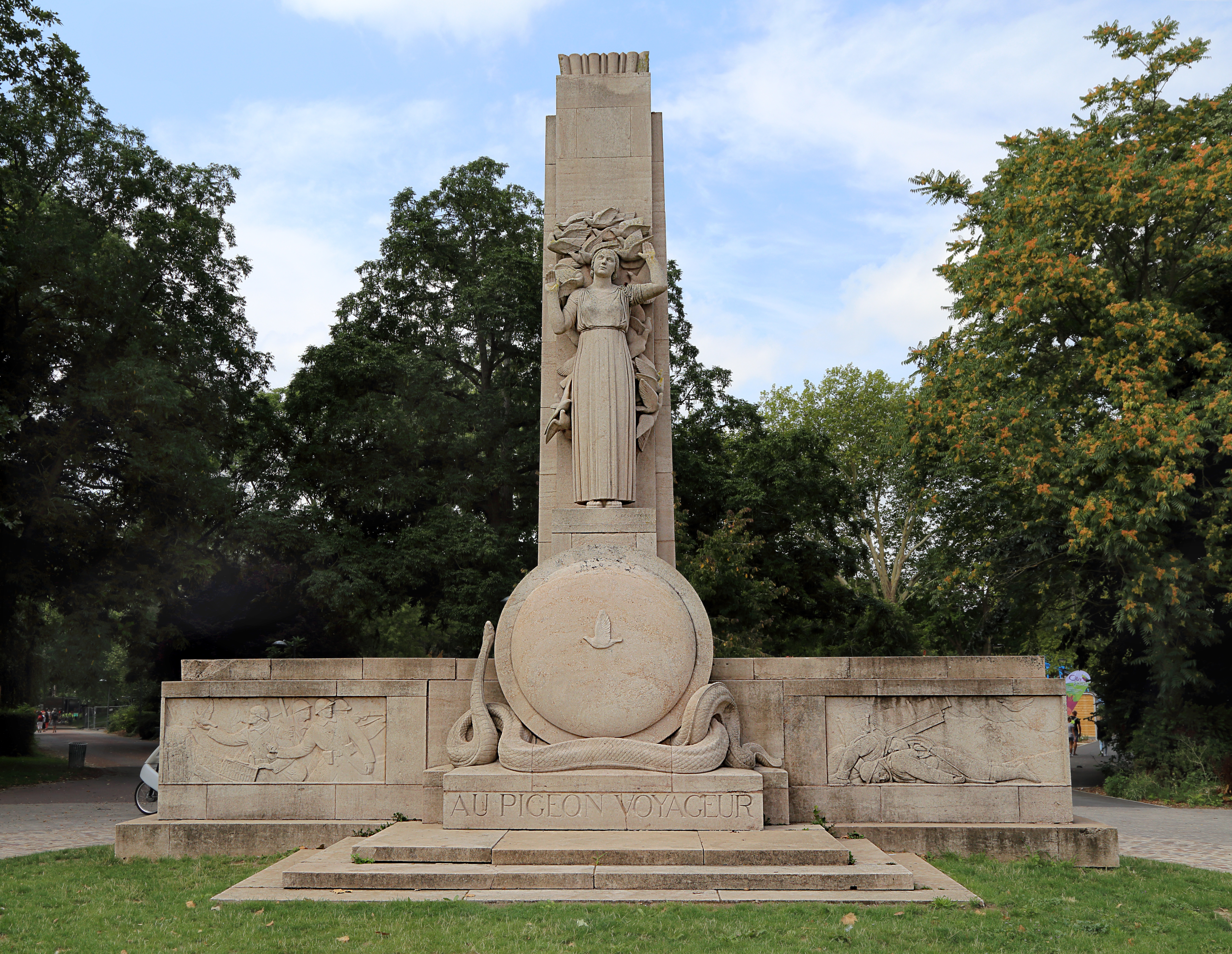 Monument « Au pigeon voyageur » set up in 1936 in Lille, France. Monument dedicated to carrier pigeons as well as to pigeon fanciers shot during the World War I.